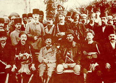 Participants of Alaşehir Congress.